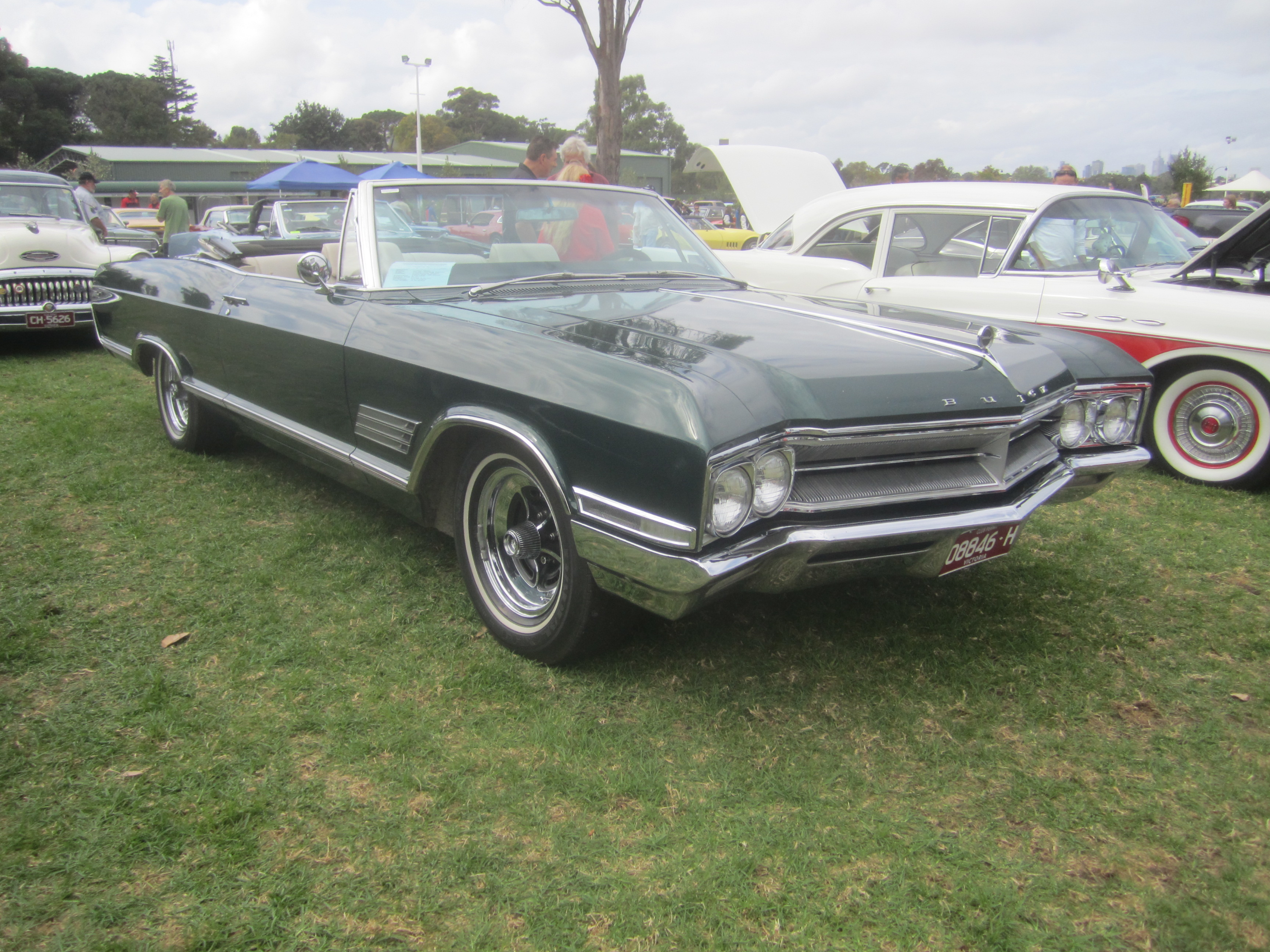 The Wildcat Sport Coupe was introduced in 1962, but was only an option on the Invicta that year. it got a high performance version of the 401 V8, Electra tail lights, bucket seats, console, special exterior side trim and vinyl roof. In 1963 it became its own series, now, available as a 4 door Hardtop and Convertible as well as the Sport Coupe. The 2nd generation Wildcats were built from 1965-70, instead of Ventiports the Wildcats featured chrome hash marks behind the front wheels. Available either Base or Custom trim levels. Also Grand Sport Performance package (1244 made) Engine; 425 cu in Nailhead V8